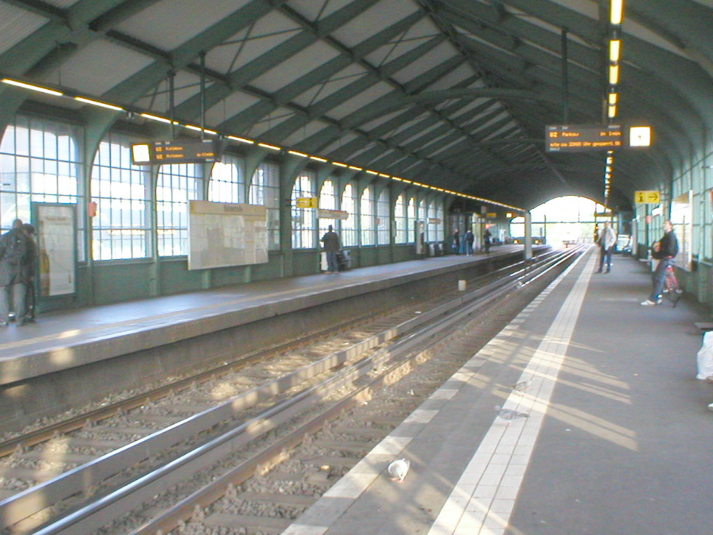 Platforms of the Berlin U-Bahn station Bülowstraße, line U2